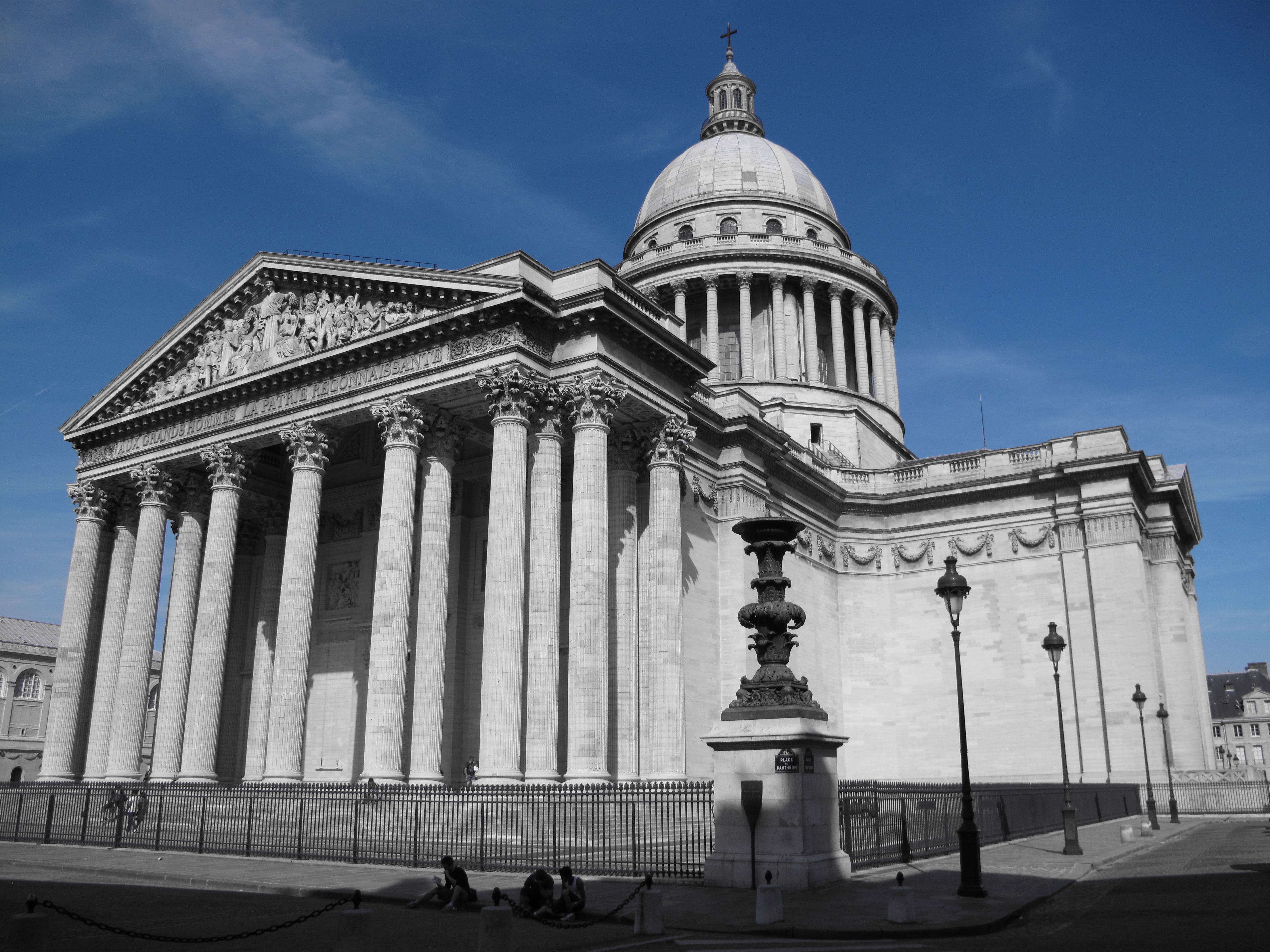 Paris Pantheon.